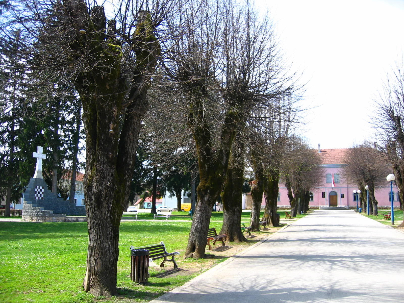 Slunj, Croatia. Park in town center. Picture taken in April 2006.